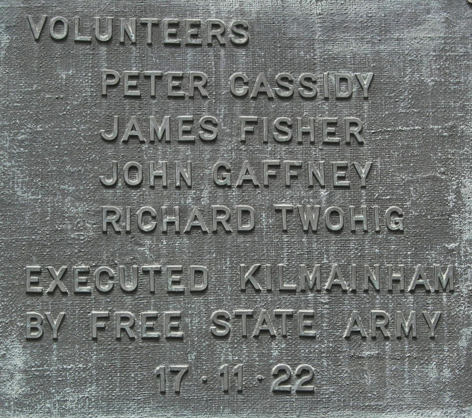 Description =Prison de Kilmainham Source =Photo taken by Remi Jouan Date =Mai 2006 Author =Remi Jouan